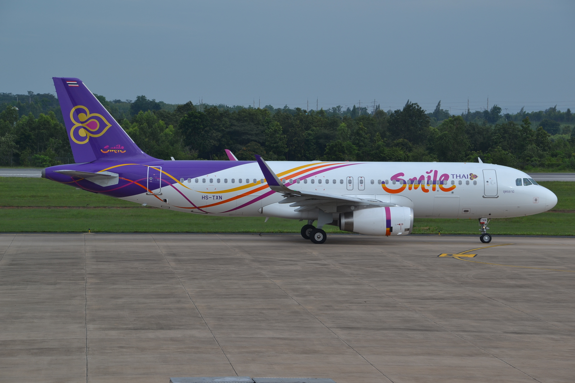 Airbus A320(SL) of THAI Smile with additional "Smile" title on tail at Khon Kaen- KKC,Thailand,04/08/14.